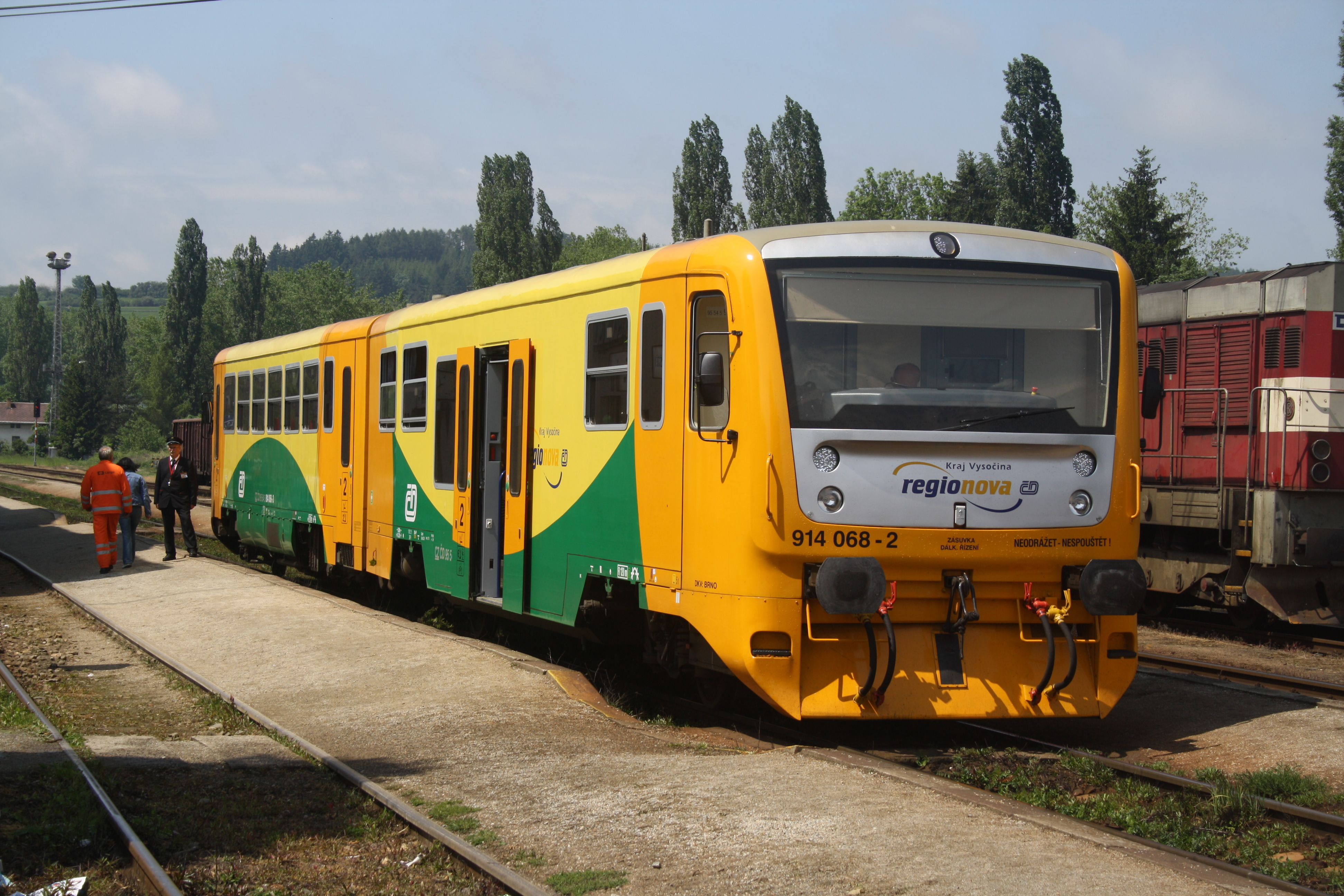 Regionova train in Okříšky, Czech Republic.